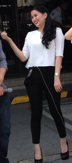 Dianne Medina as one of the host of Good Morning Boss shown simulcast on PTV 4